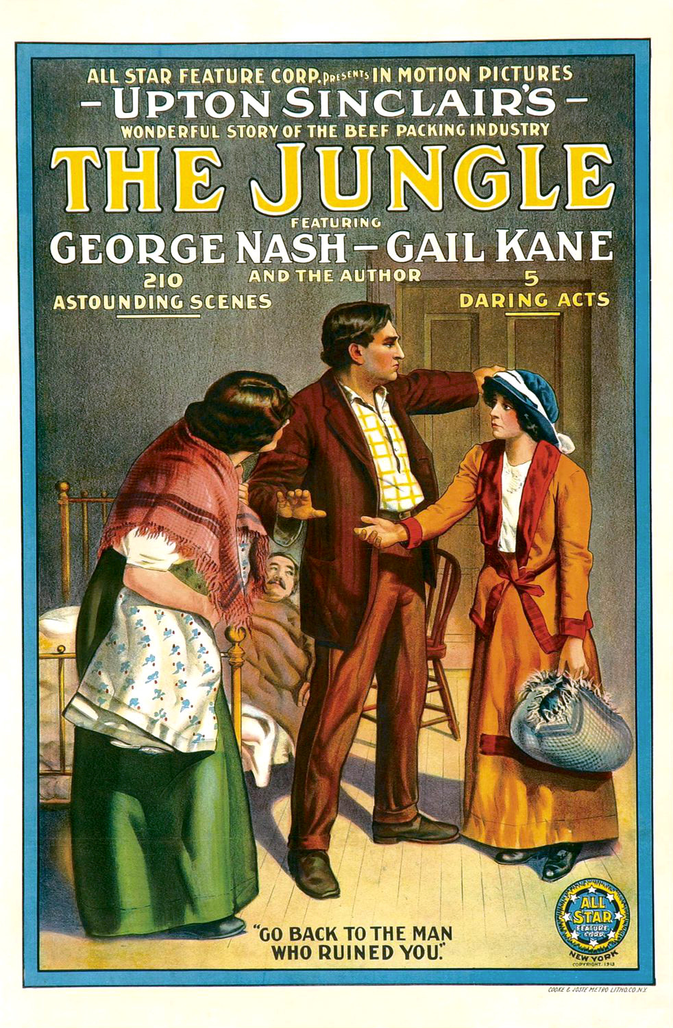 Poster from the 1914 film The Jungle.